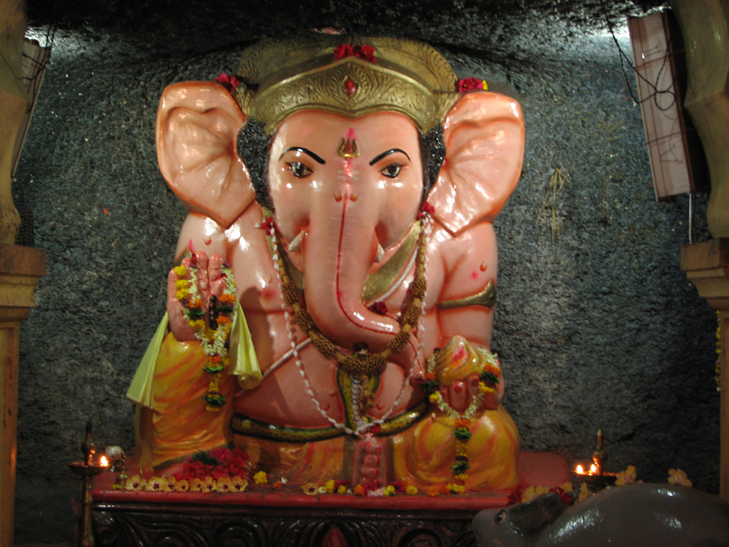 Nilesh Sutar